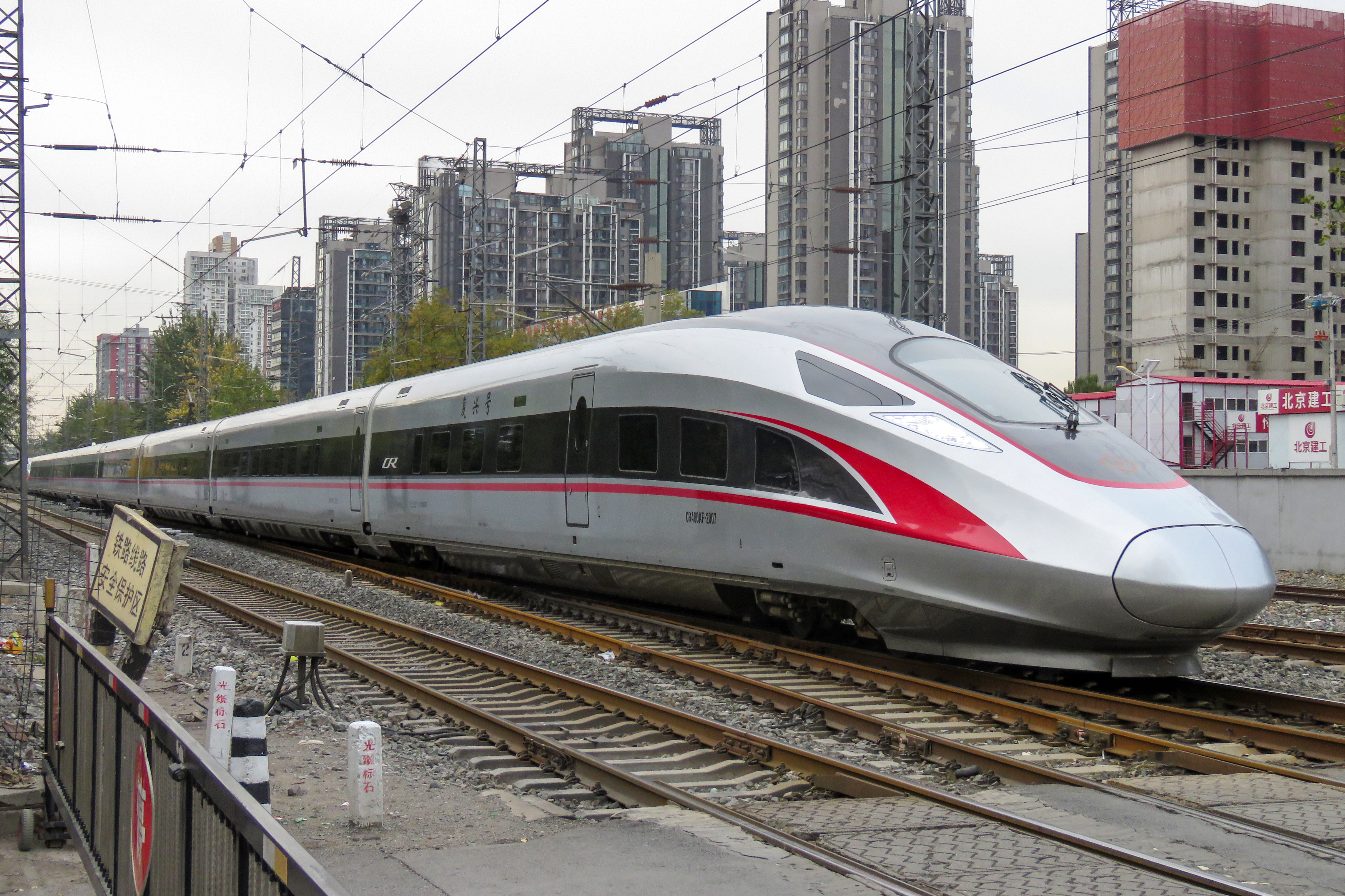 0G66 from depot. Spotting on 8cm isn't easy...